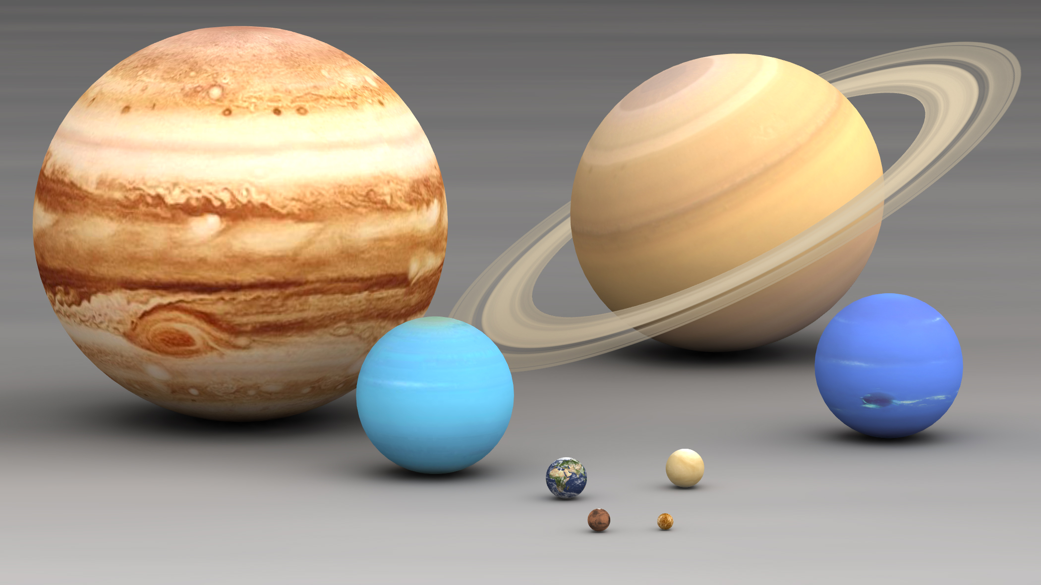 Solar system planets size comparison. Largest to smallest are pictured left to right, top to bottom: Jupiter, Saturn, Uranus, Neptune, Earth, Venus, Mars, Mercury.